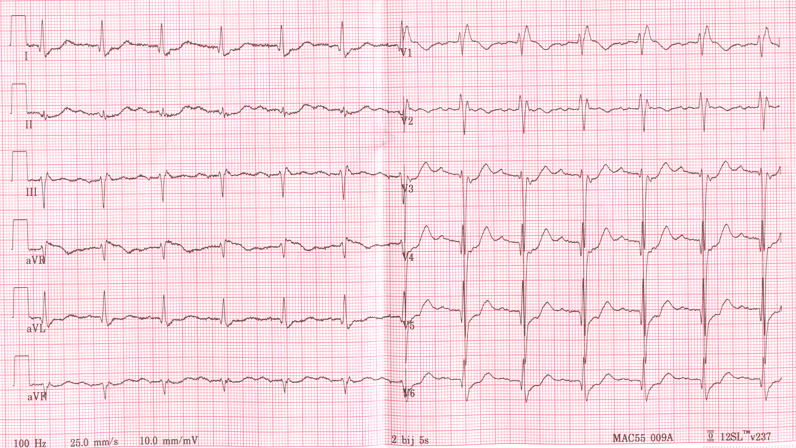 Trifascicular block consisting of first degree AV block and right bundle branch block and left axis deviation.